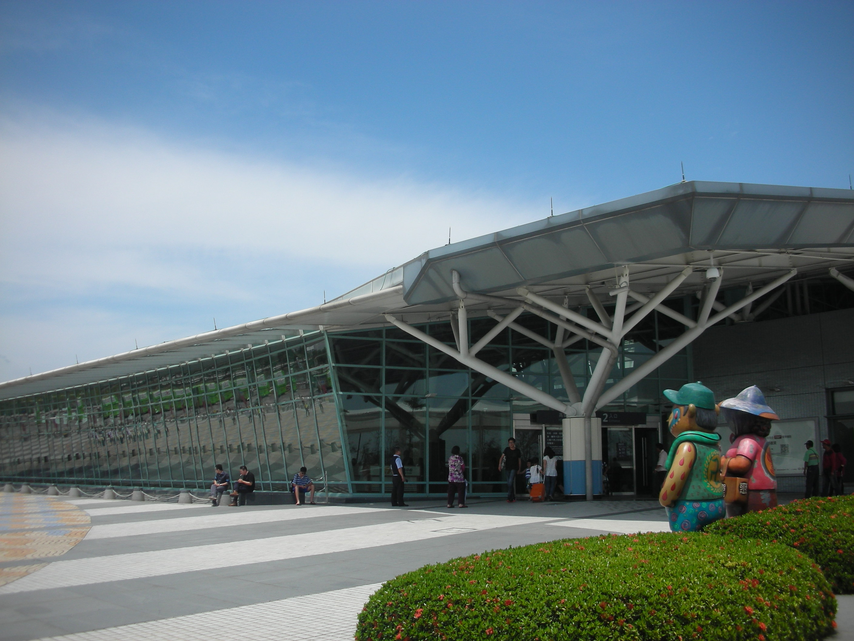 嘉義高鐵站 THSR Chiayi Station